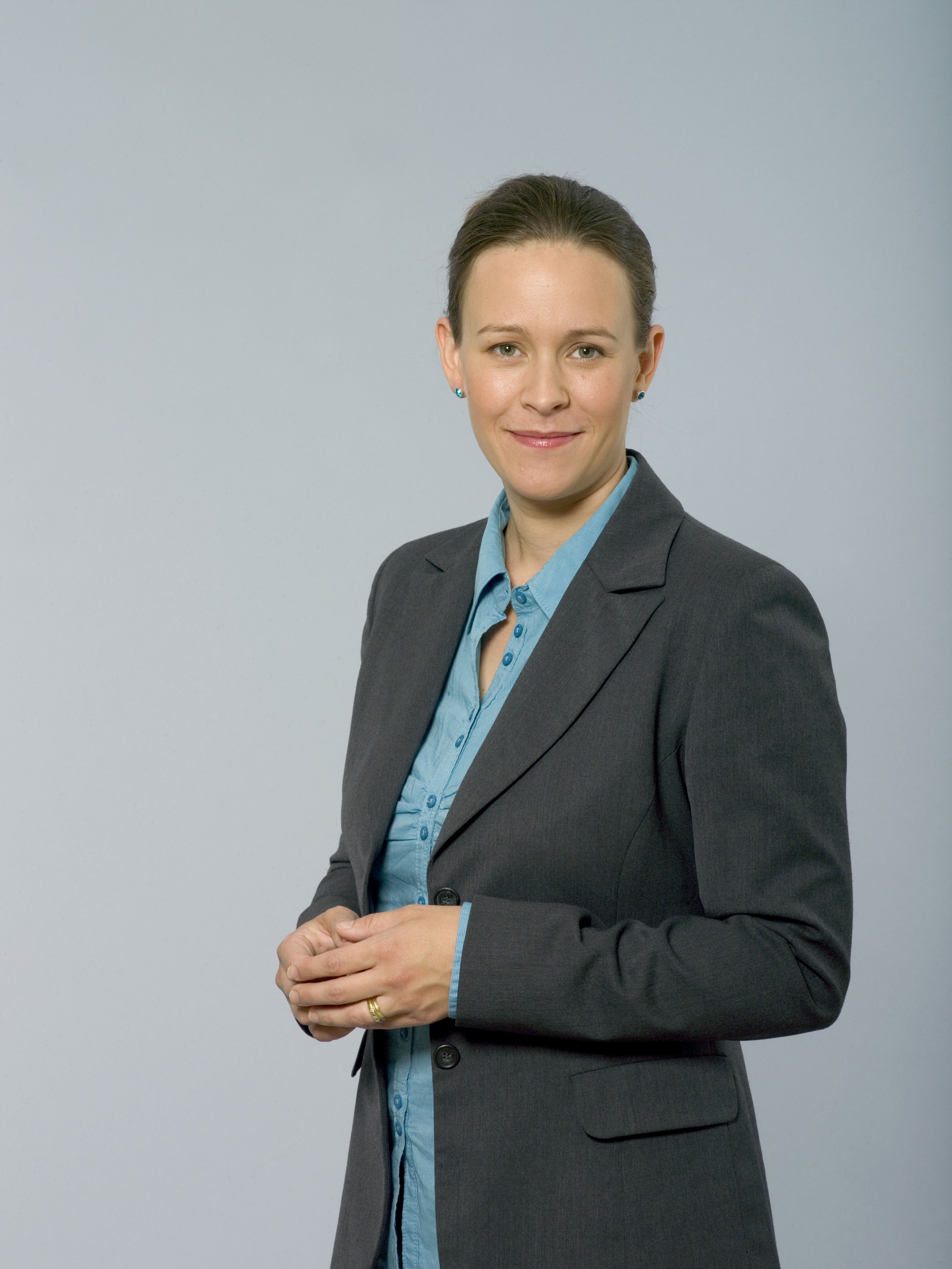 The Swedish Greens spokesperson Maria Wetterstrand